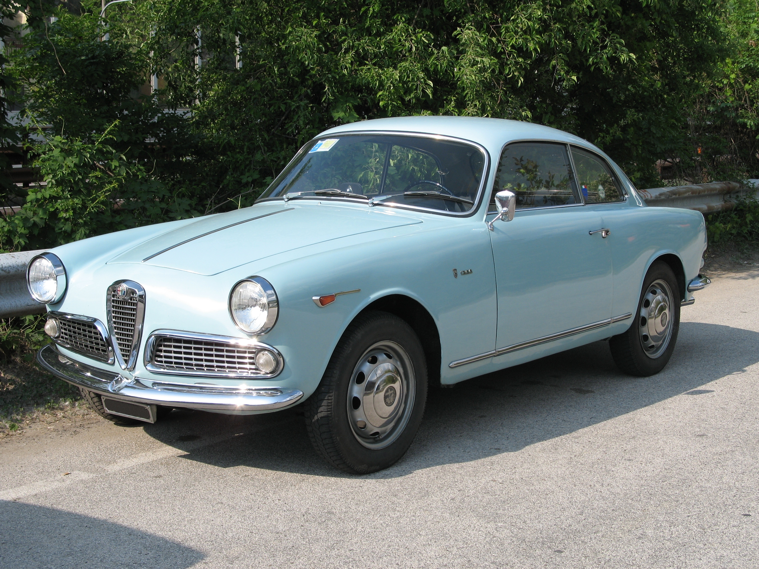 An Alfa Romeo Giulietta Sprint 1300